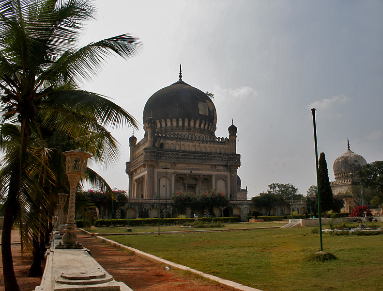 Tomb of Muhammad Quli Qutb Shah in Hyderabad, India.